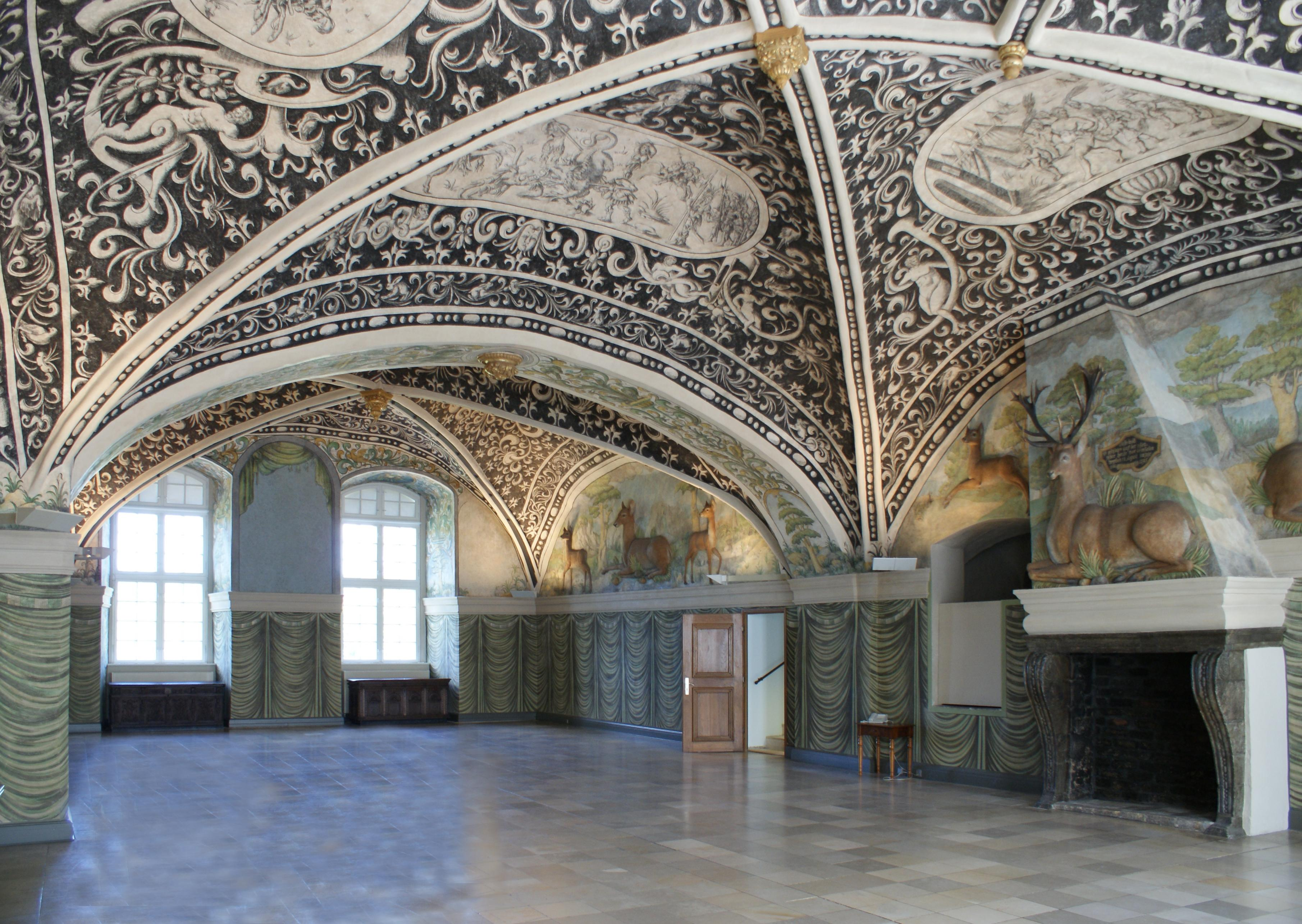 Gottorf Castle, the Hall of the Deers